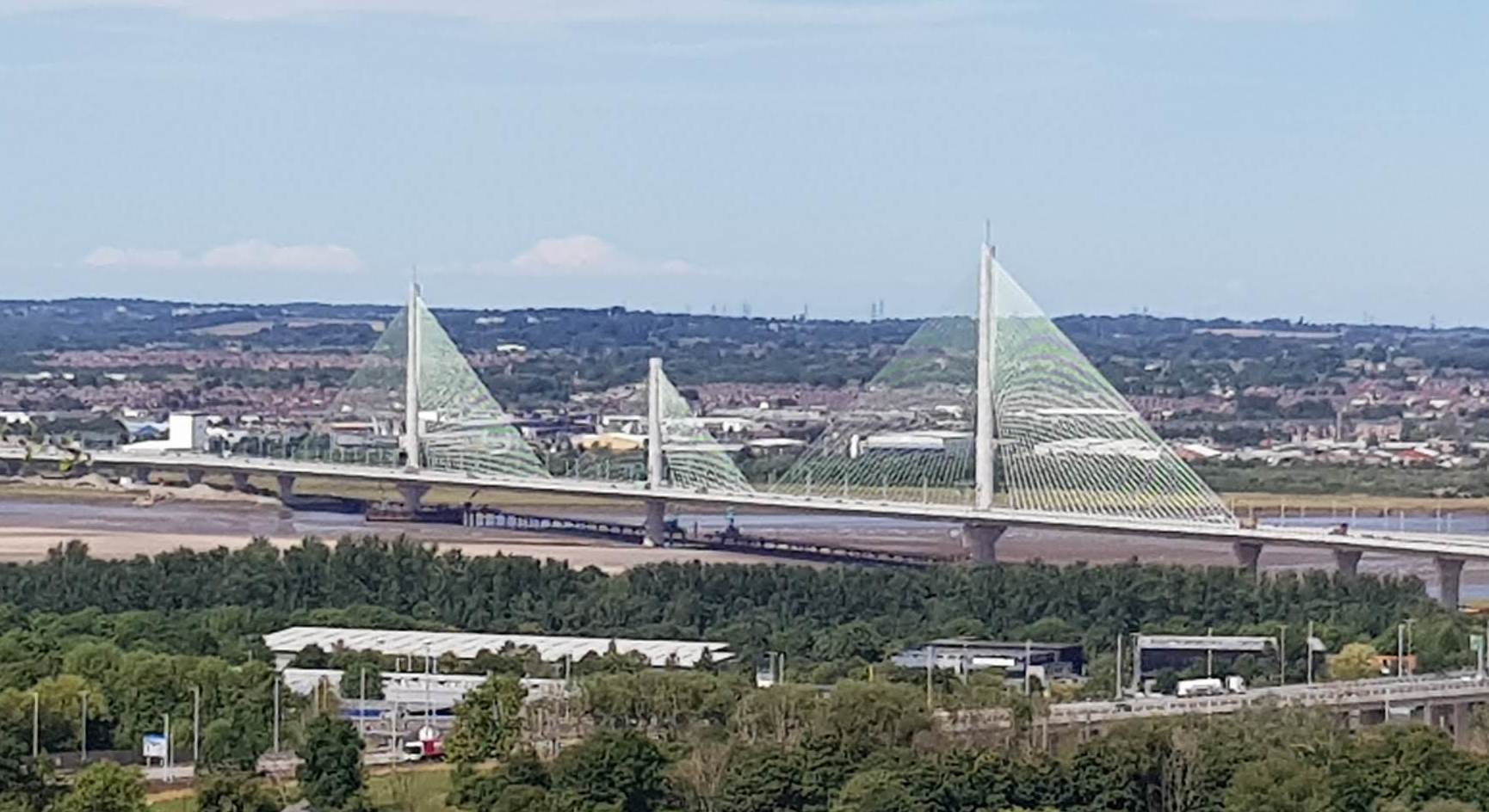 The Mersey Gateway Bridge viewed from Halton Castle in Runcorn, Cheshire, England